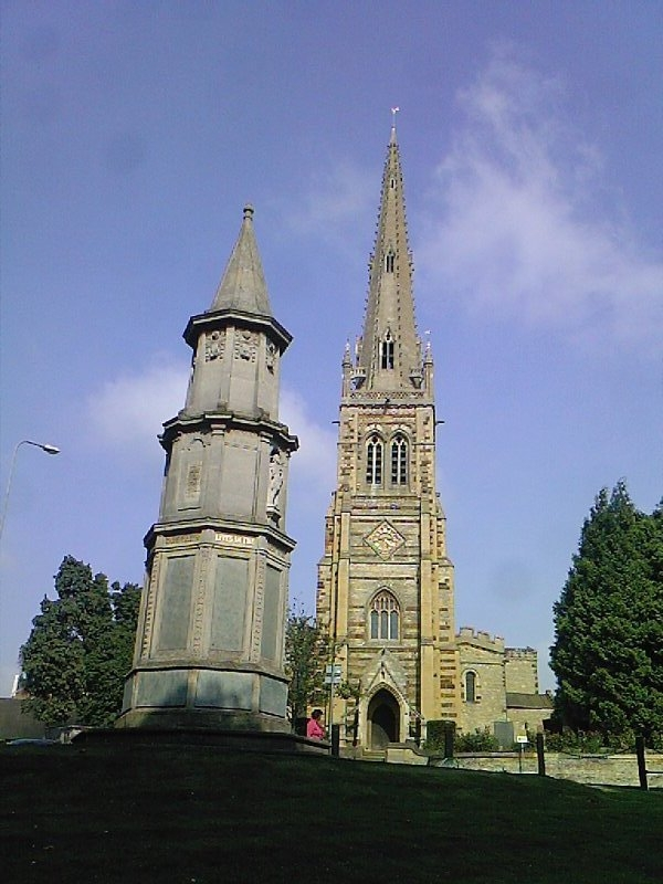 Church Green, Rushden, Northamptonshire. In the foreground, centre left, is the town's war memorial. Beyond it, centre right, is St Mary's parish church.